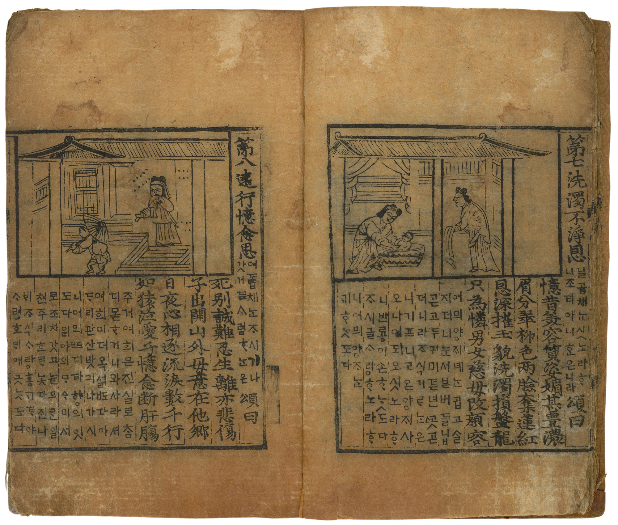 Korean woodblock book, printed on brown paper during the 16th century. The text is assumed to have been written in China since the earliest known version of this sūtra was discovered at Dunhuang. Though Buddhist, it incorporates the Confucian ethic of repaying the kindness and devotion of one's parents through acts of self-abasement.